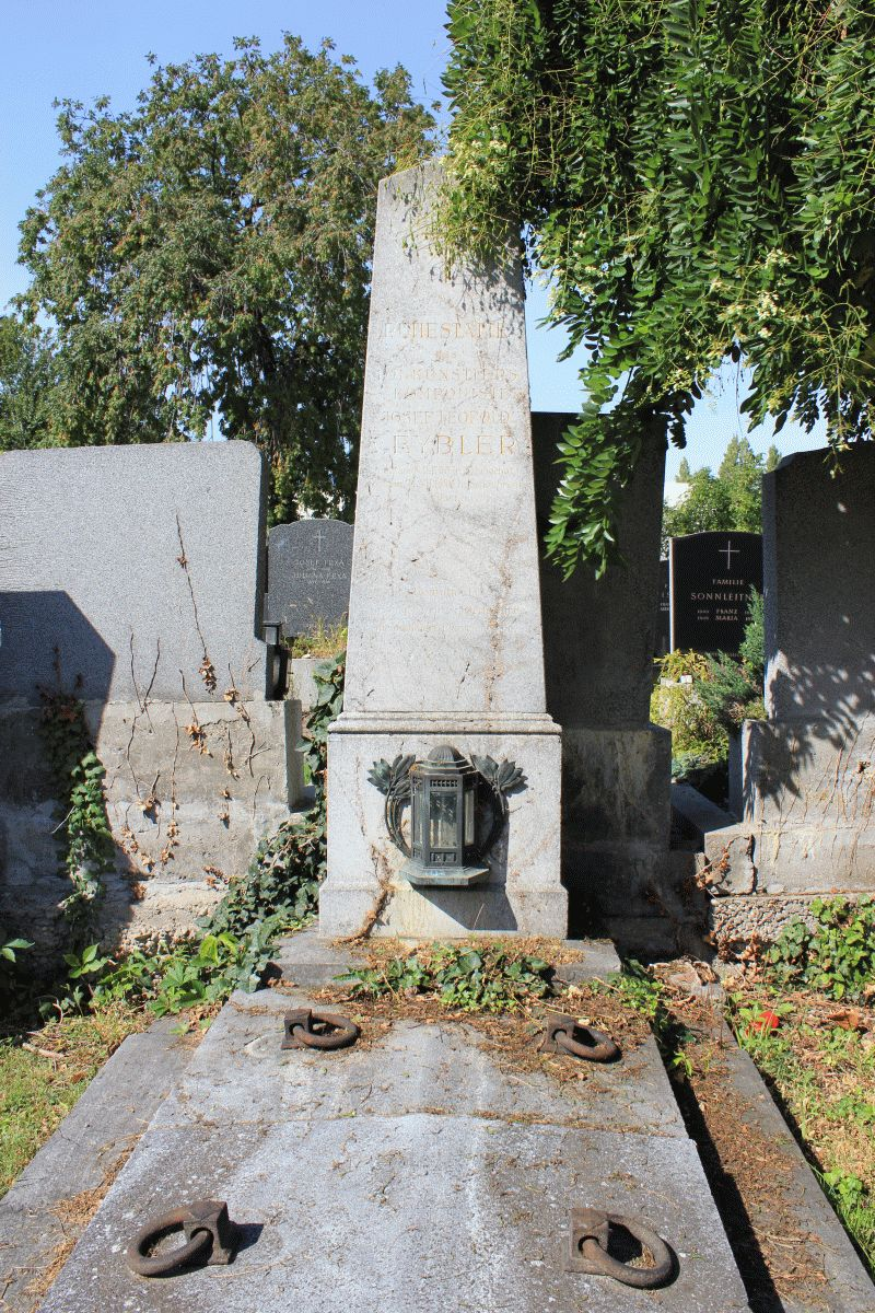 The grave of Joseph von Eybler in Schwechat.